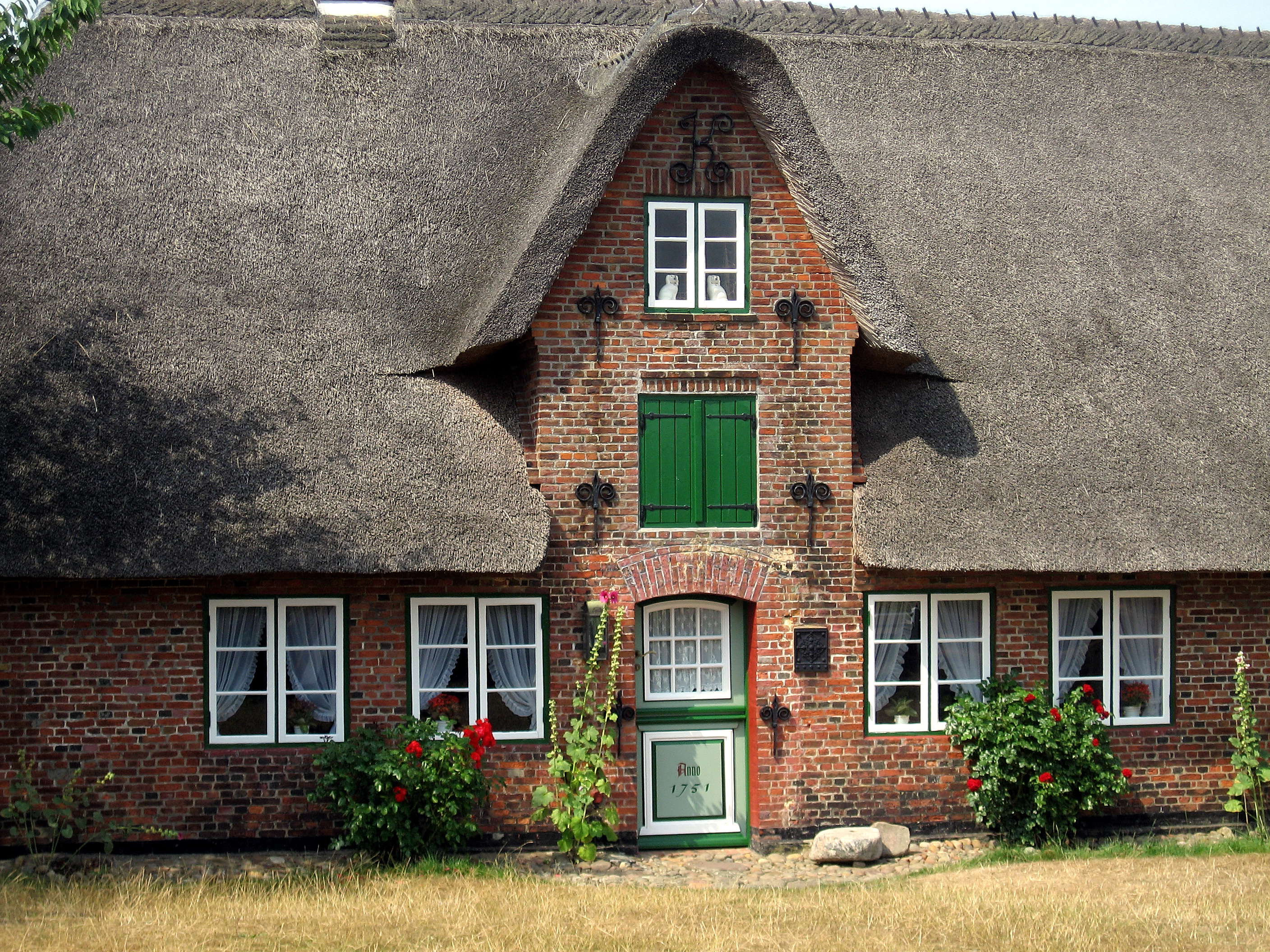 Germany, Island Amrum, Museum for local history Öömrang Hüs